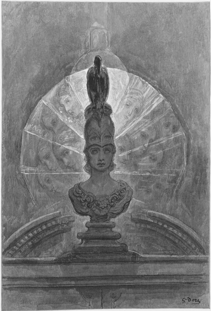 pg 49 in PDF of an 1884 illustrated publication of The Raven.